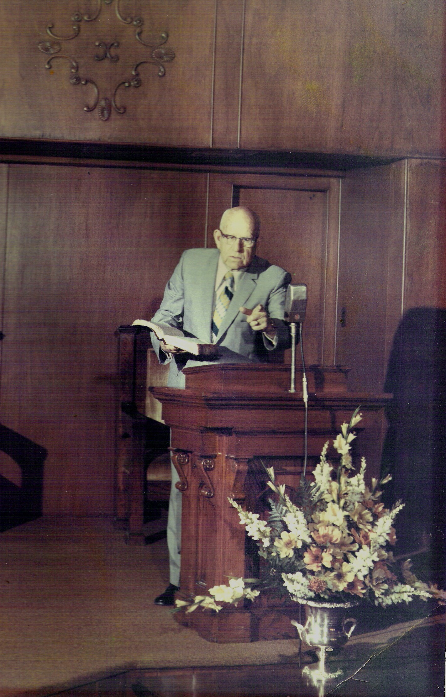 Dr Stevens at Salem Baptist Church in Winston Salem